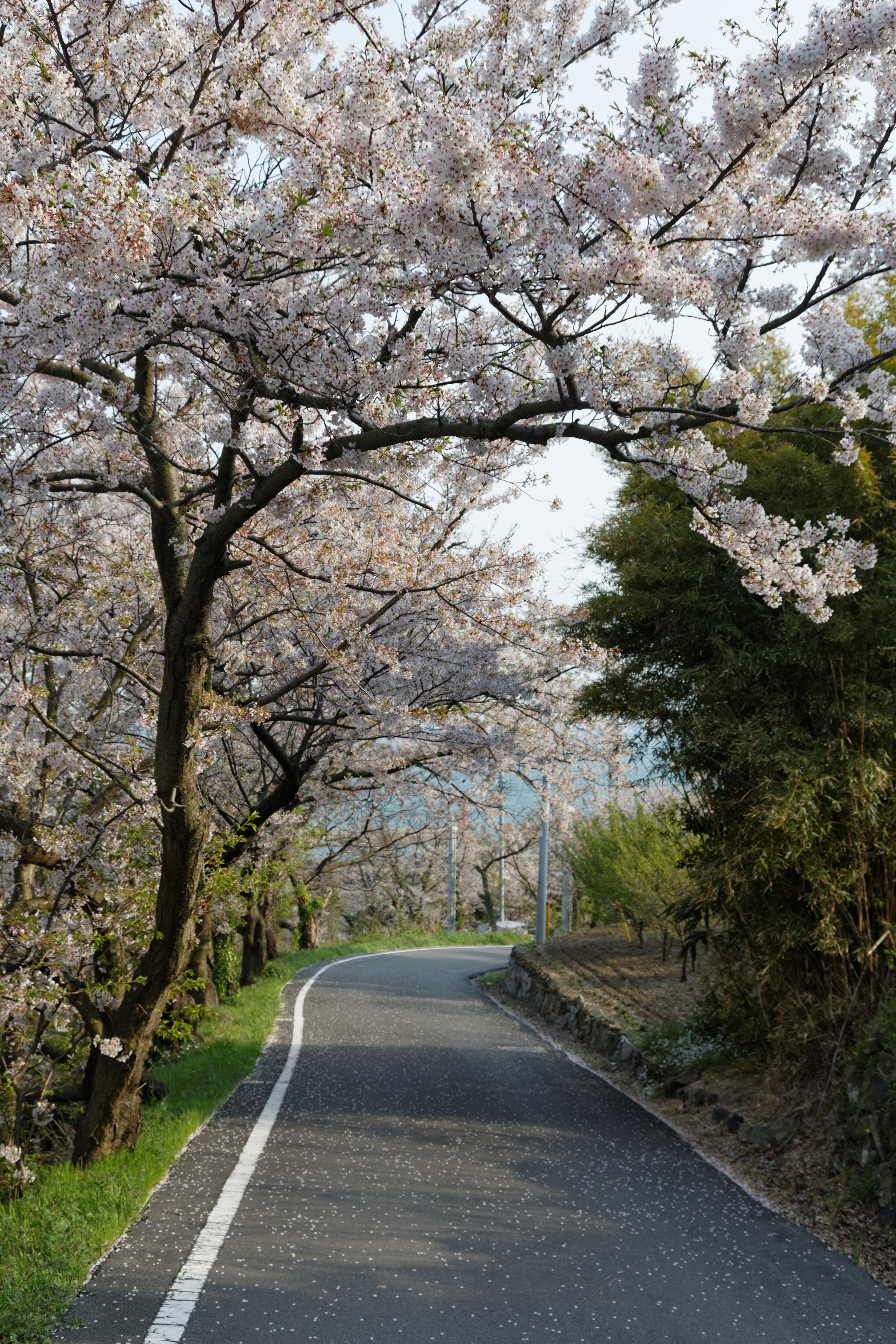 Megijima 2013-04